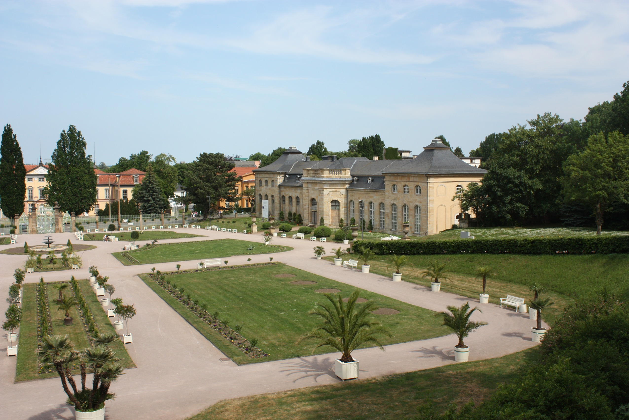 Gotha, orangery park, the Orange house